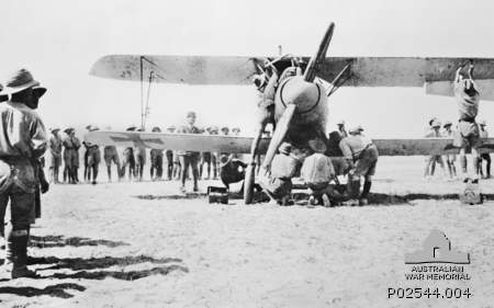 AWM caption : Tel-el Fara, Palestine. c. 1918. A captured German Albatros D5 aircraft is inspected by six Australians while a Palestinian official in a fez looks on, standing behind the starboard wing. A number of British soldiers stand around the plane in a semicircle.